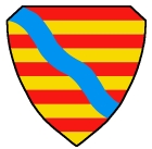 Coat of Arms of Lohr